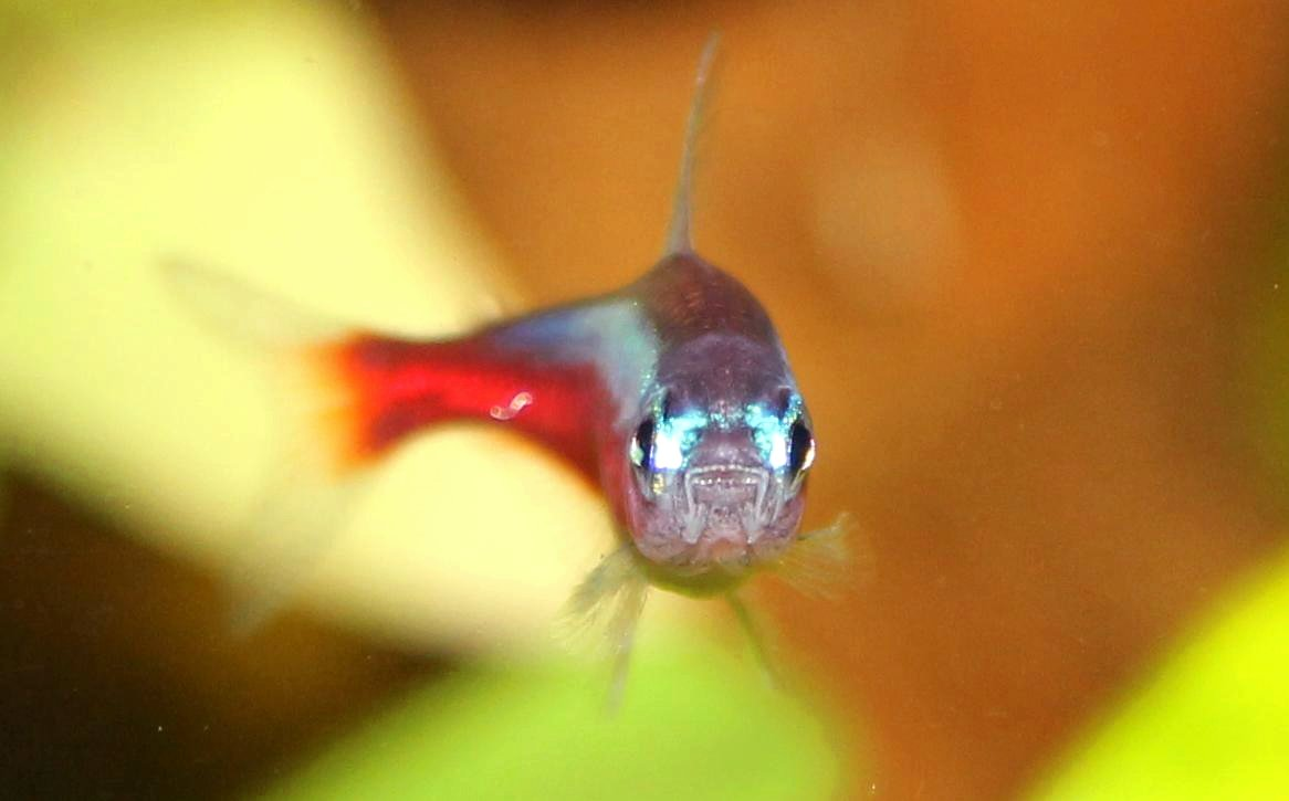 Paracheirodon axelrodi